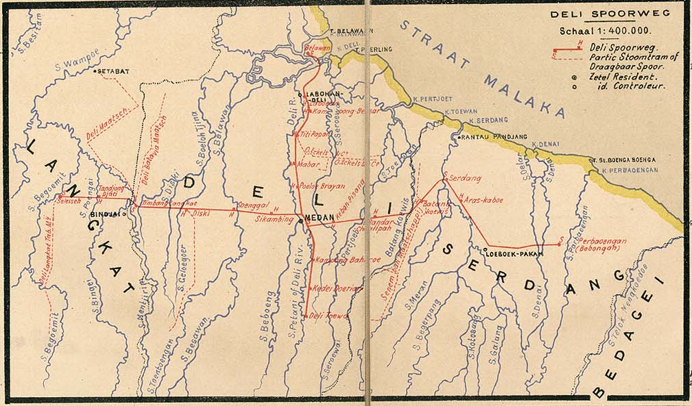 Map of the rail network of the Deli Spoorweg Mj. im Nortehrn Sumatra. Section of "Kaart van Nederlandisch-Indie naar oorspronkelijke teekening van H. Ph. Th. Witkamp"